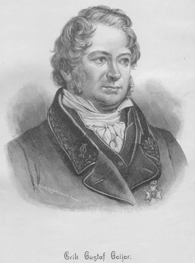 Erik Gustaf Geijer (17893-1847), Swedish author